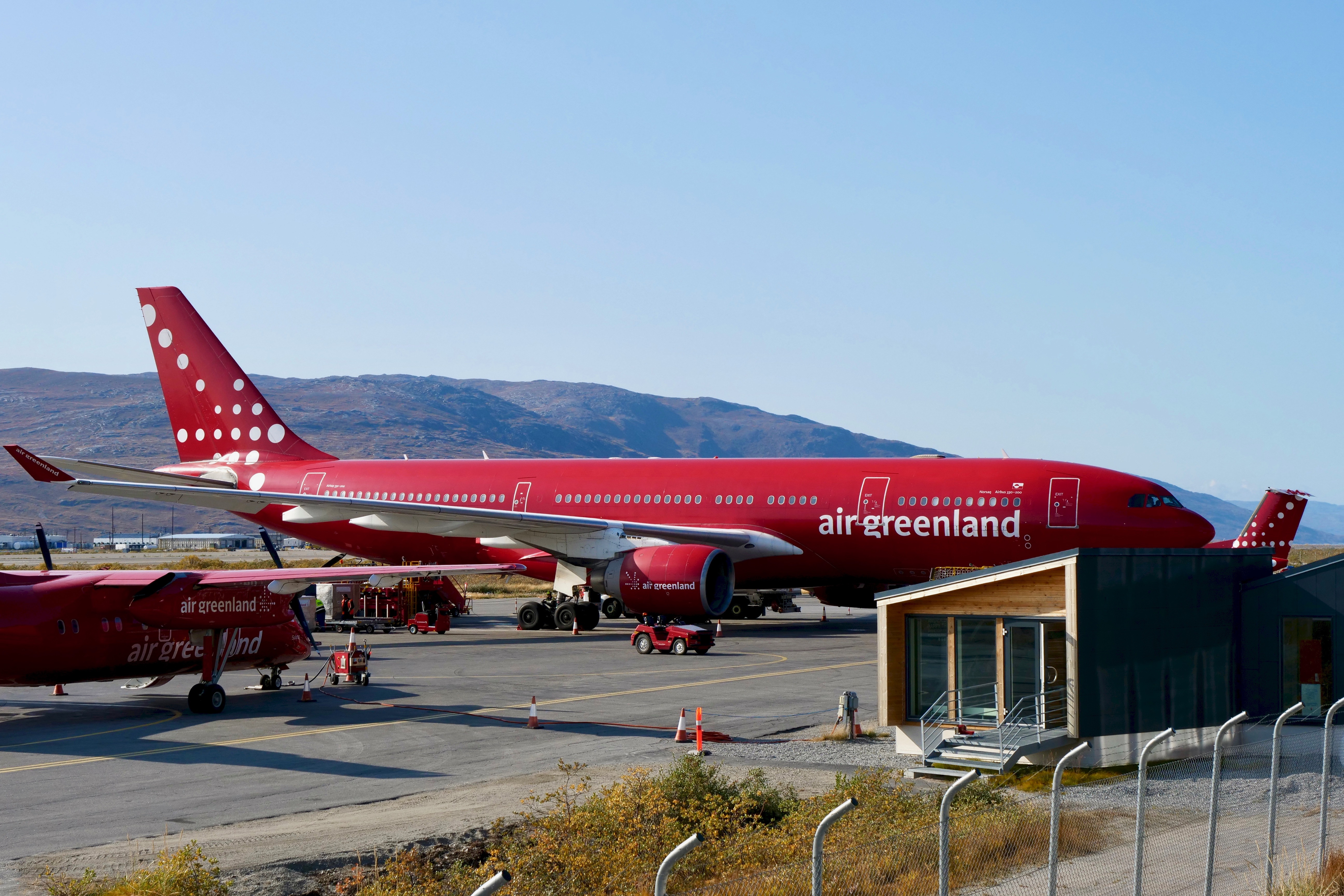 Air Greenland's only A330 parked at Kangerlussuaq Airport.